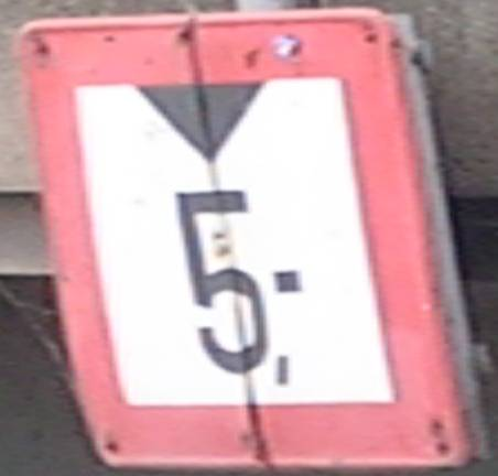 Prague, the Czech Republic. Ship transport sign.